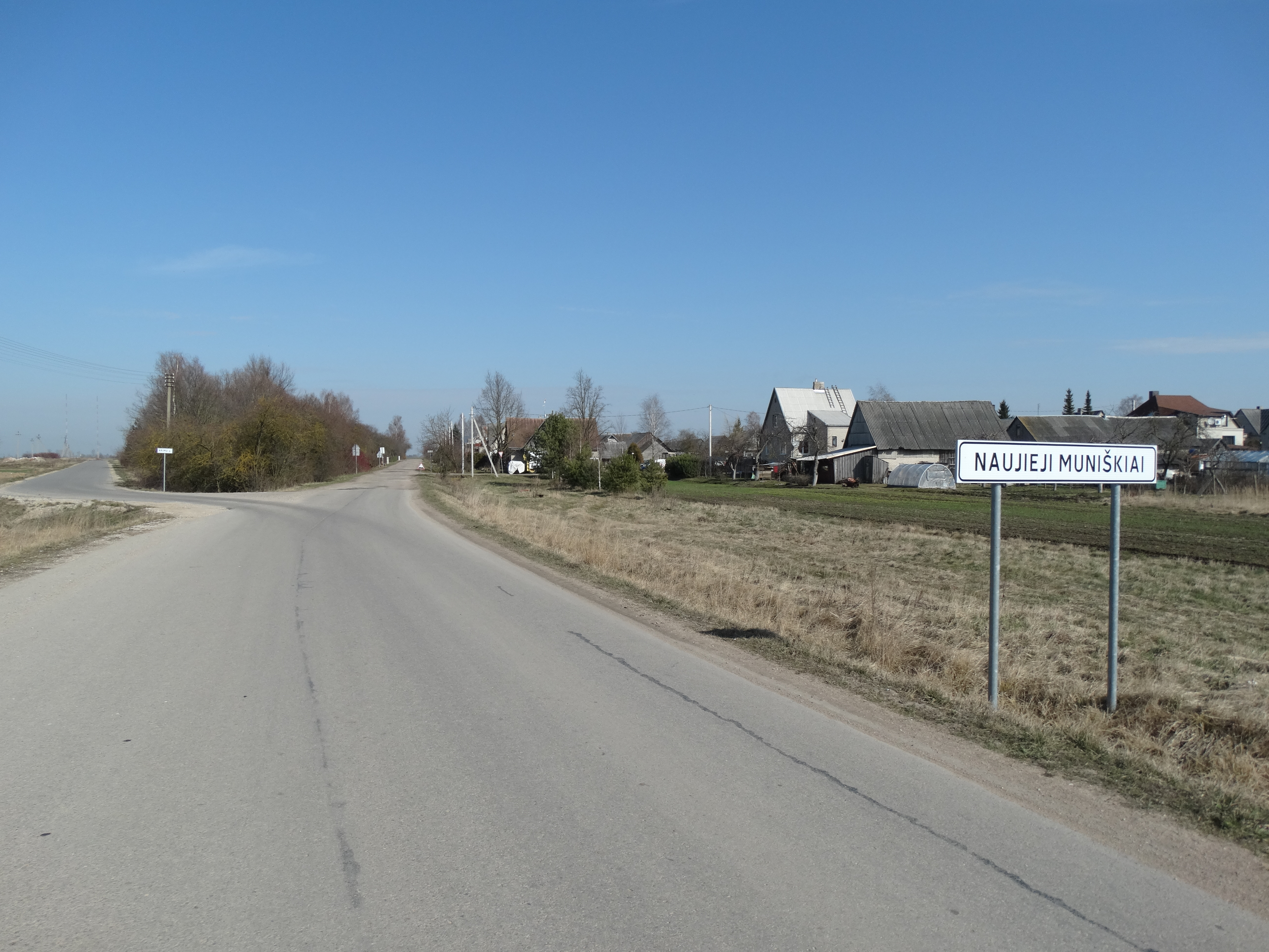 Naujieji Muniškiai, Kaunas District. Lithuania